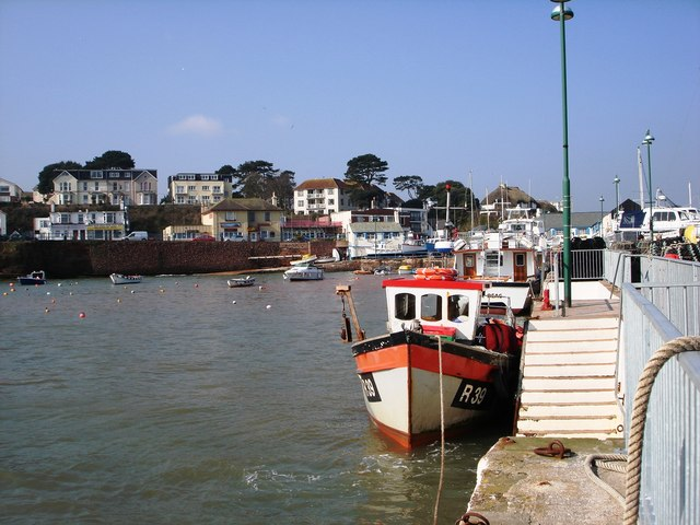 Fishing Boat in Paignton Harbour A colourful small fishing boat by the harbour wall steps.